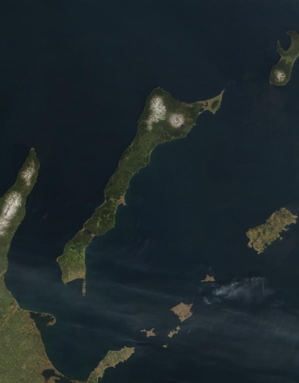 Kunashir Island